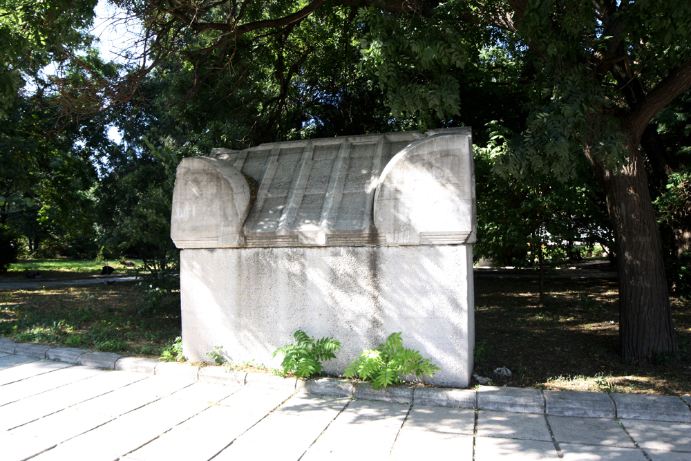 Ancient Roman sarcopagus from Marcianopolis - Devnya, Bulgaria Древен саркофаг (Музей на мозайките, Девня)